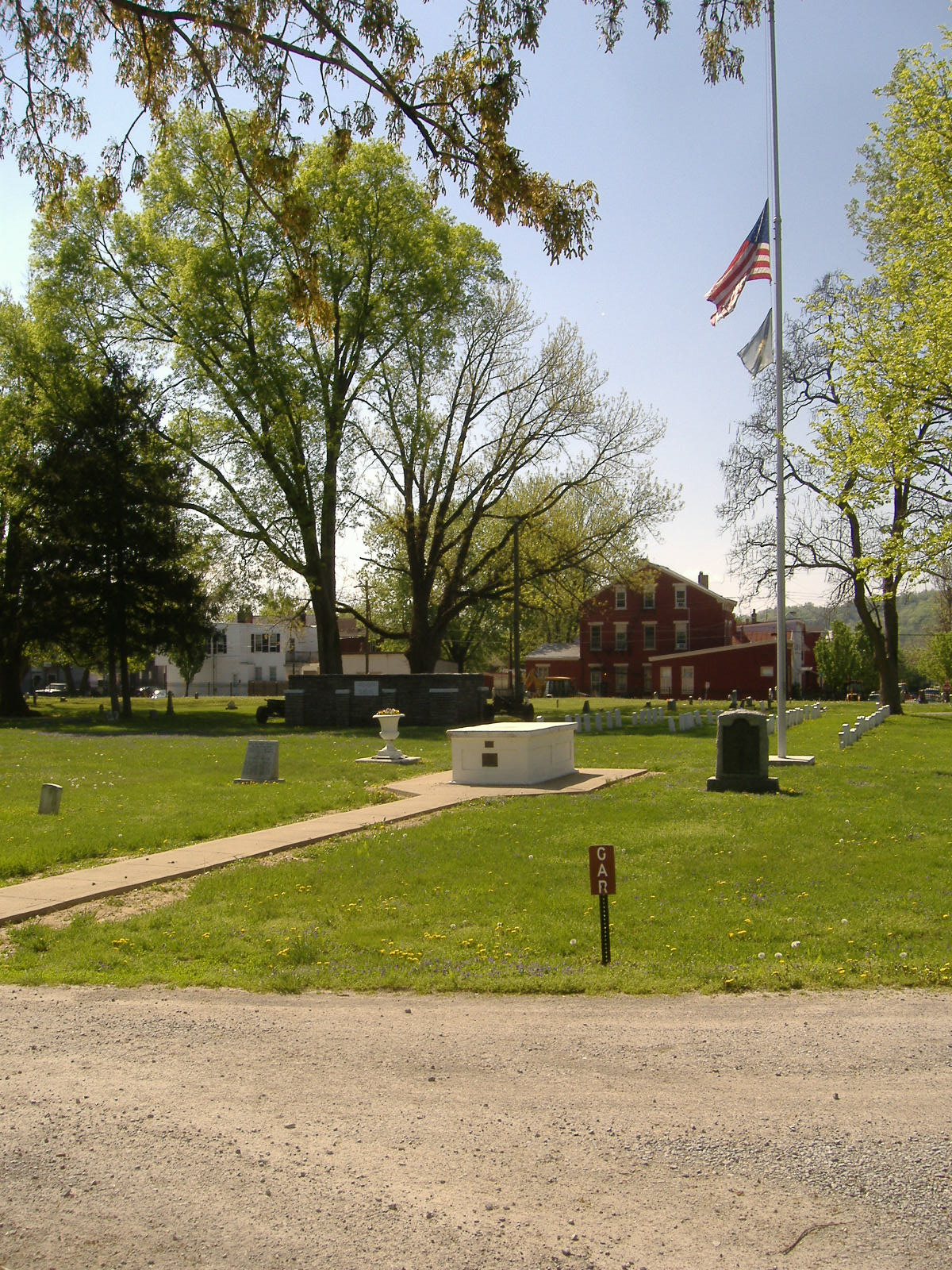 View in Linden Grove Cemetery of both the Veteran's Monument in Covington & the GAR Monument in Covington (Covington, Kentucky)